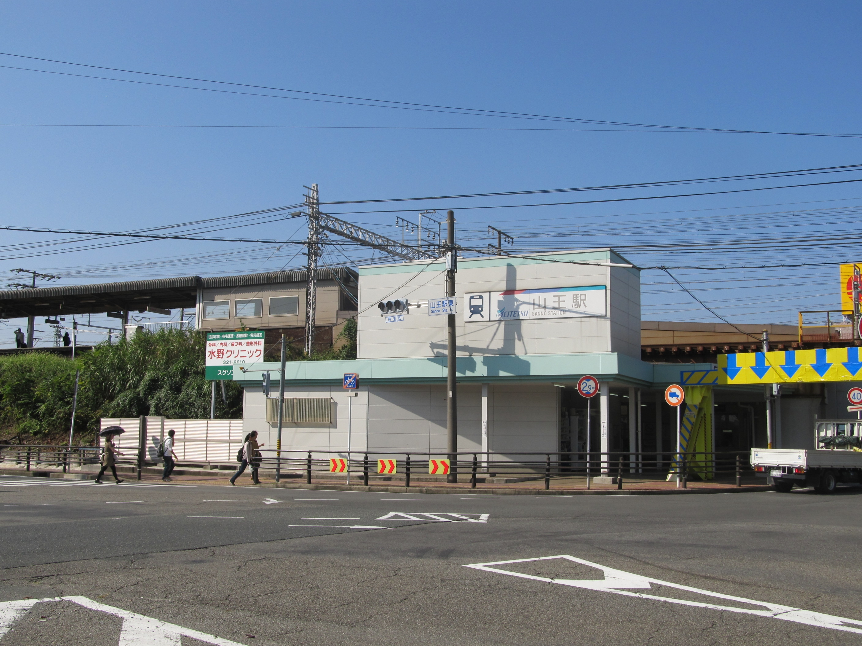 Nagoya Railroad Nagoya Main Line Sannō Station Building